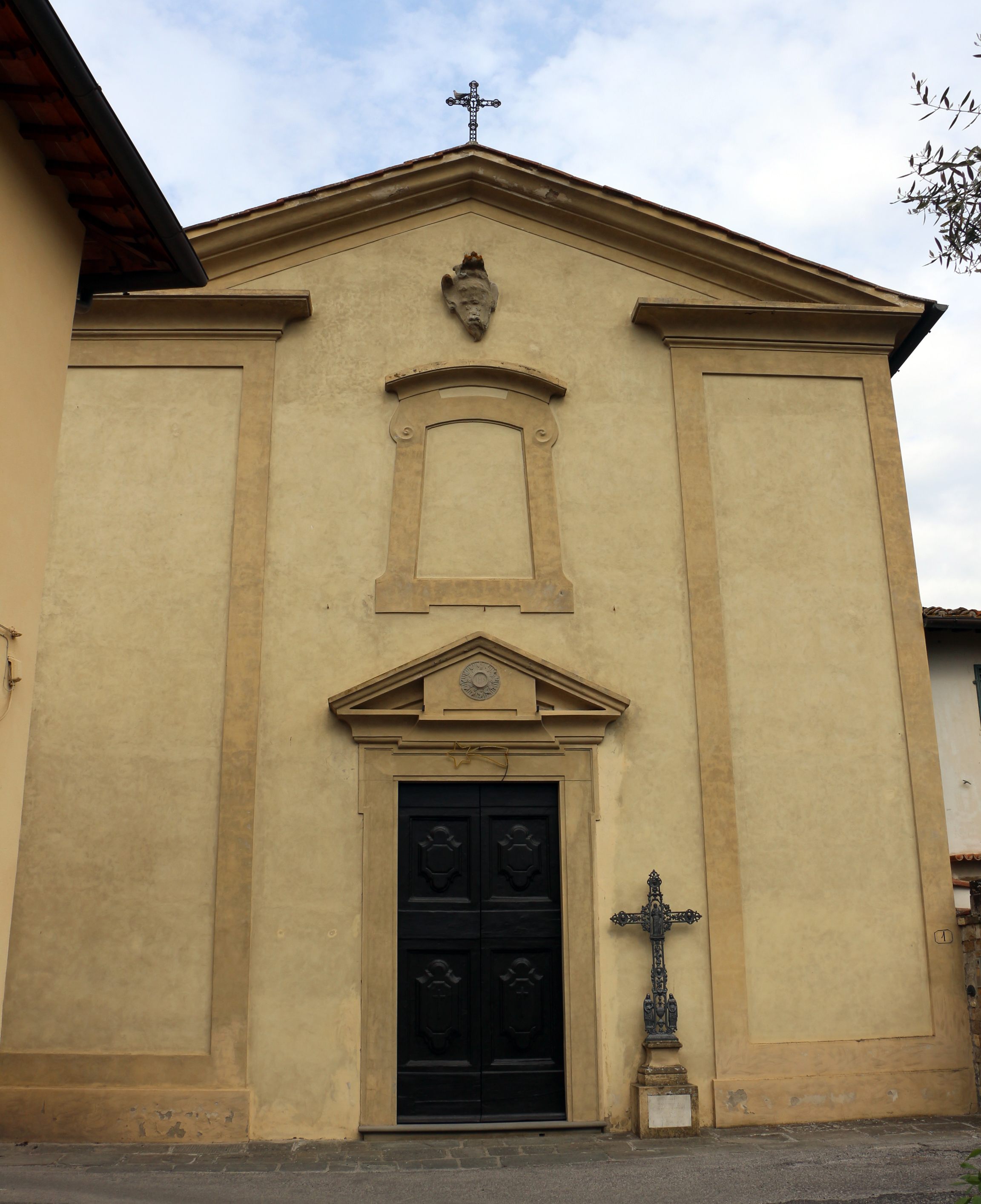 Pozzolatico